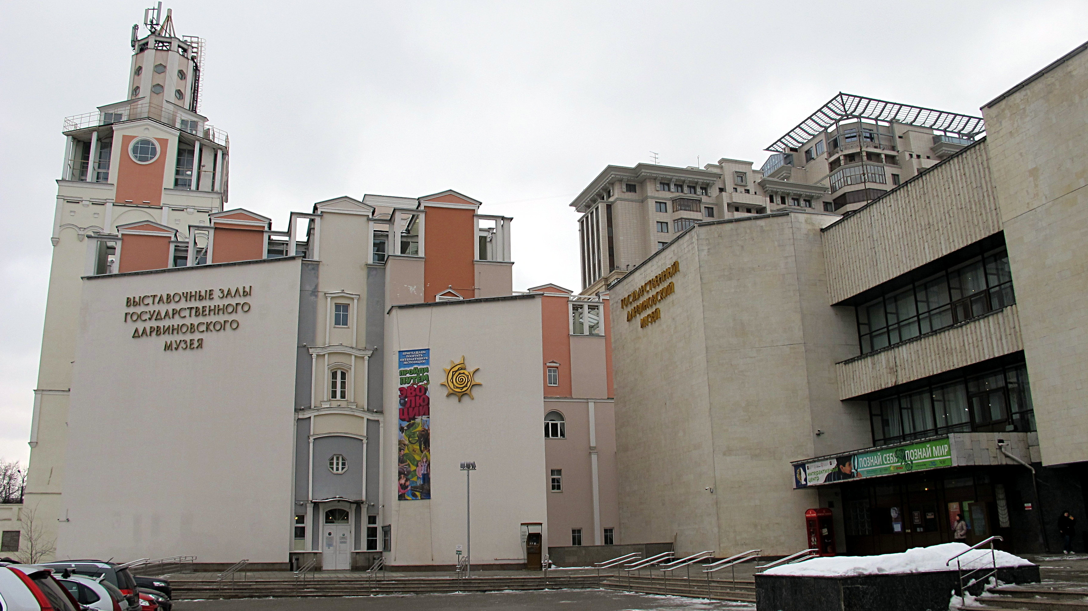 Wikitrip to Darwin Museum 2016-03-03